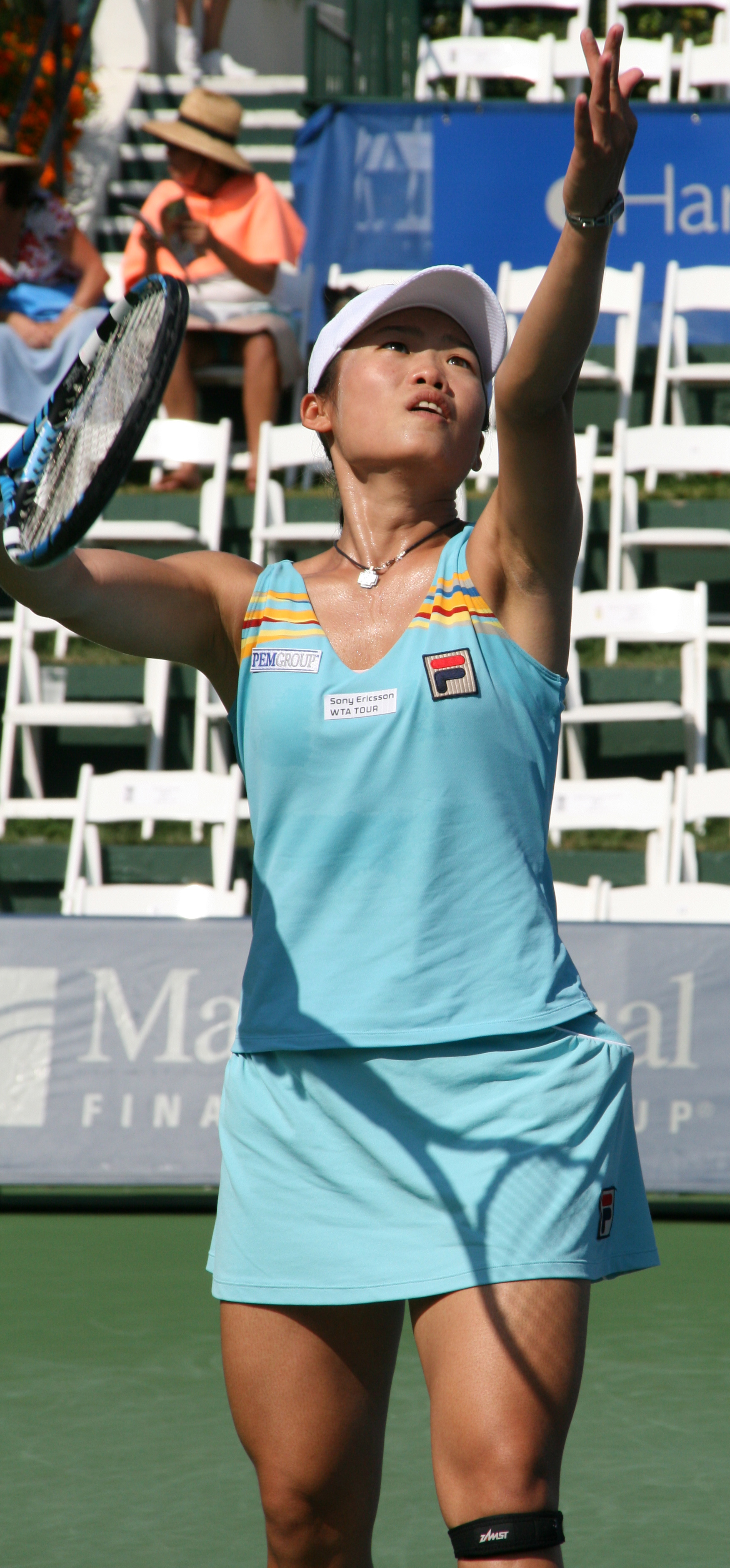 Chuang Chia-Jung at the 2007 Acura Classic